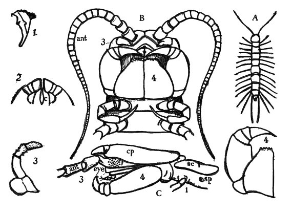 Structure of a centipede. A, Lithobius americanus, natural size. B, under side of head and first two body-segments and legs, enlarged: ant, antenna; 1. jaws; 2. first accessory jaw; c, lingua; 3, second accessory jaw and palpus; 4, poison-jaw. C. side view of head: ep, epicranium; l, frontal plate; sc, scute; p, first leg; sp, spiracle.